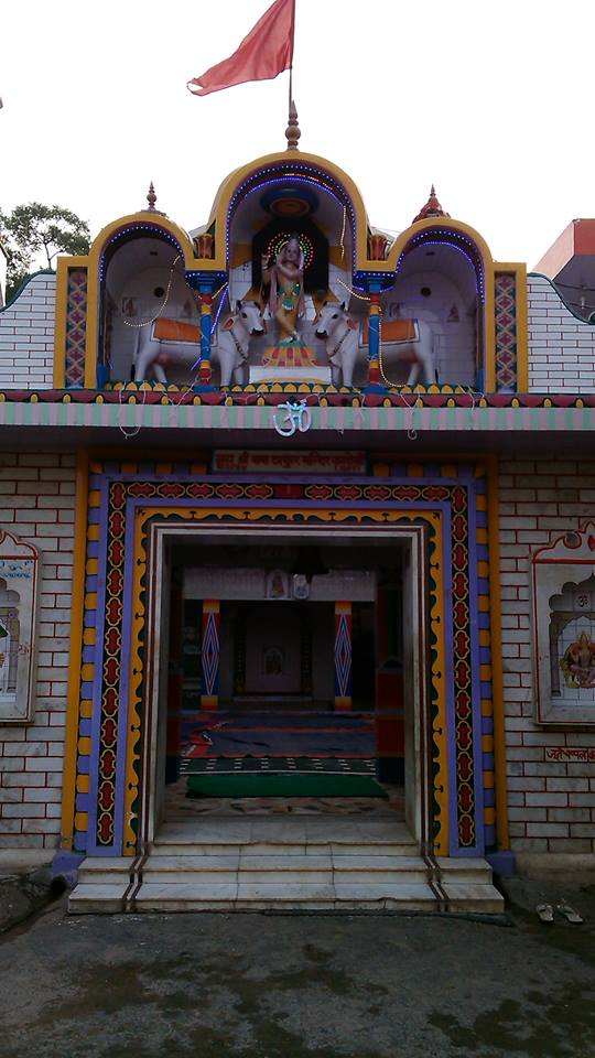 Baba thakur ji main entrance gate